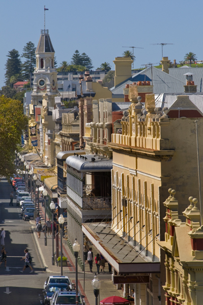 High Street from above.